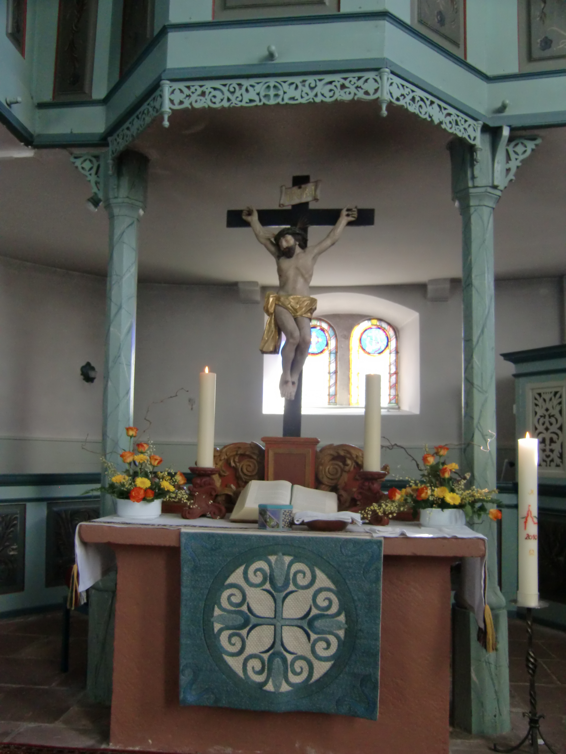 This is a photo from the altar of the Lutheran church in Vielbrunn, Hesse, Germany.